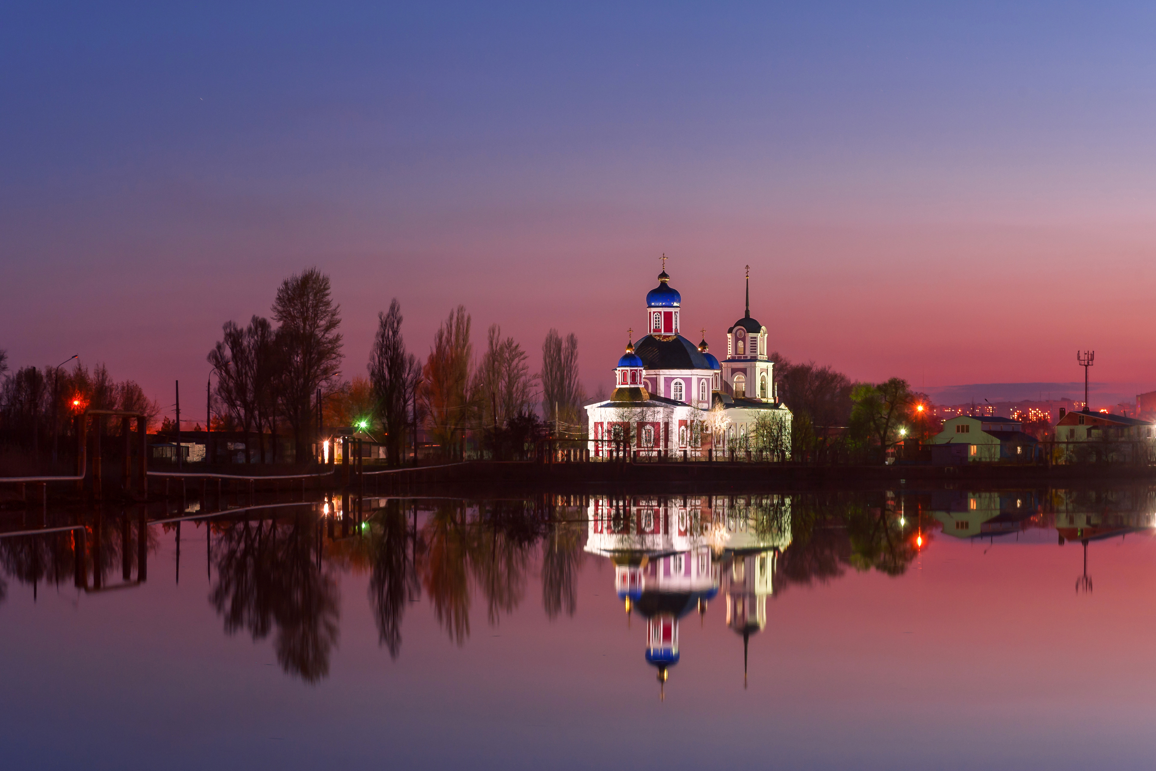 Resurrection Church in Sloviansk, Donetsk Oblast, Ukraine